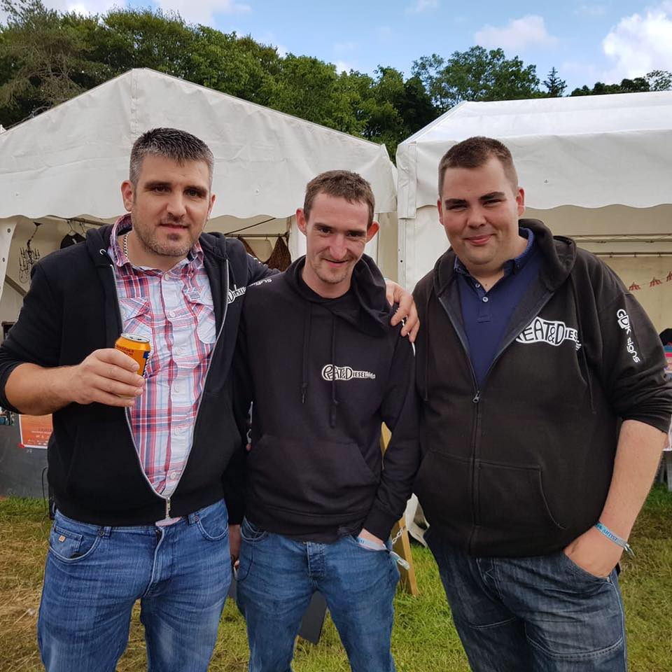 This is a picture of Innes Scott, Calum ‘Boydie’ MacLeod and Uilleam MacLeod, the three members of Peat and Diesel